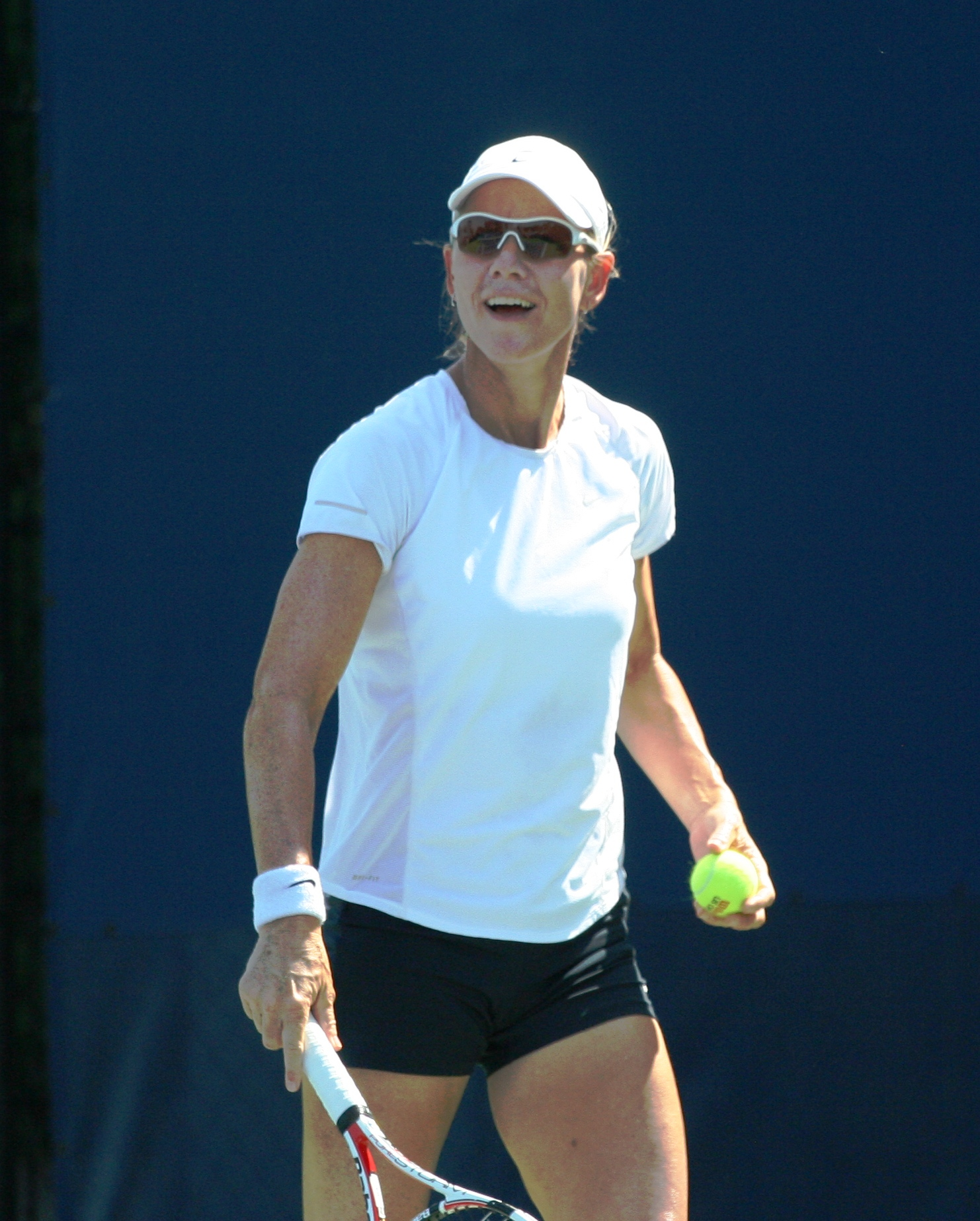 U.S. Open practice, Tuesday, Sept. 7, 2010